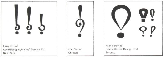 interrobanc, conception